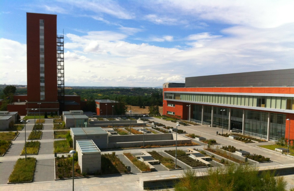 Campus of the Complutense University of Madrid